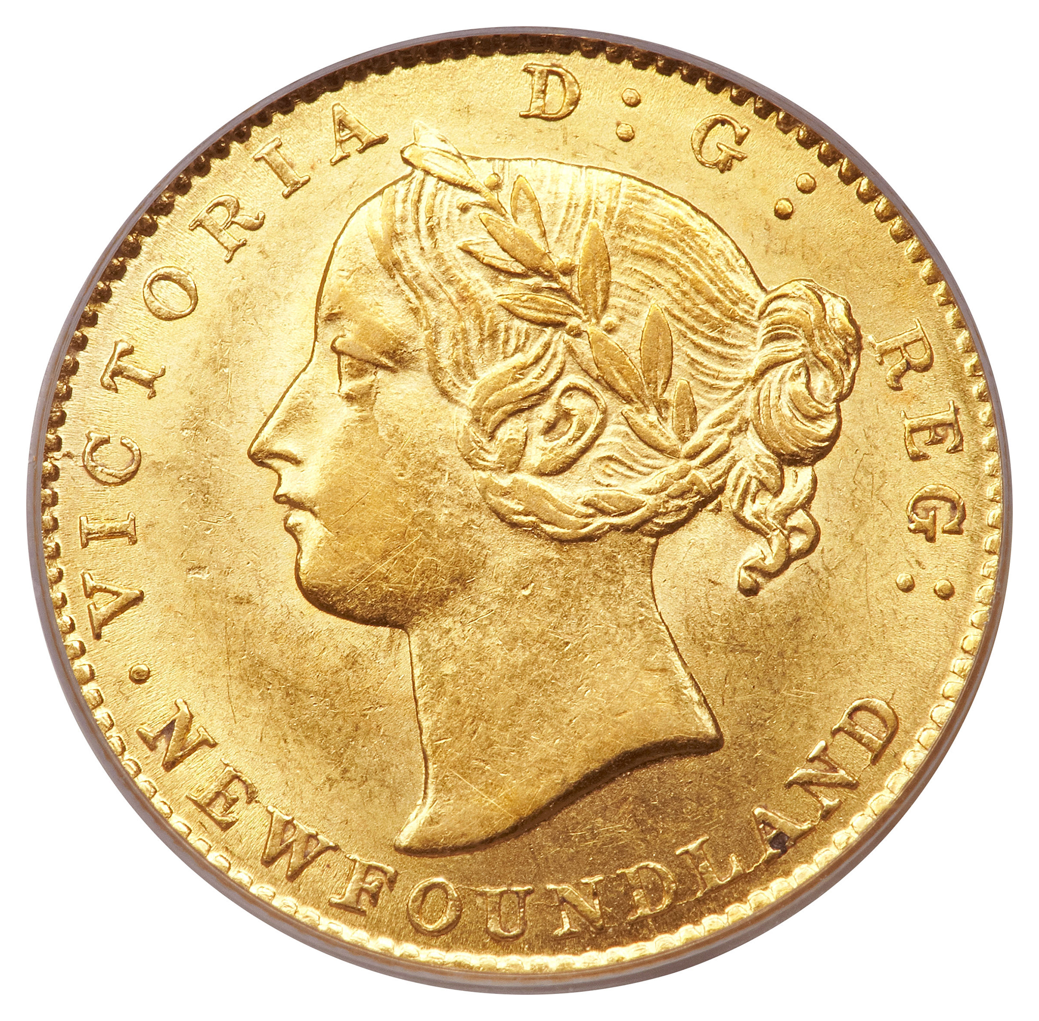 Canada Newfoundland Victoria gold 2 Dollars 1870 (obv)(3009-21019)